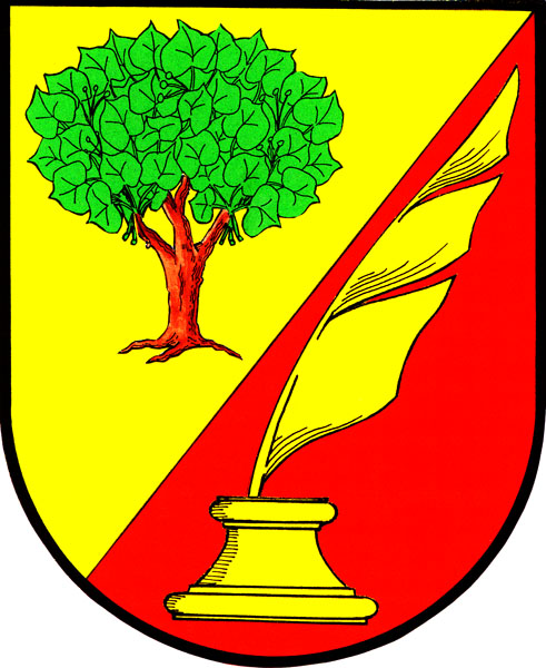 Coat of amrs of Milčice , District Nymburk, Czech republic